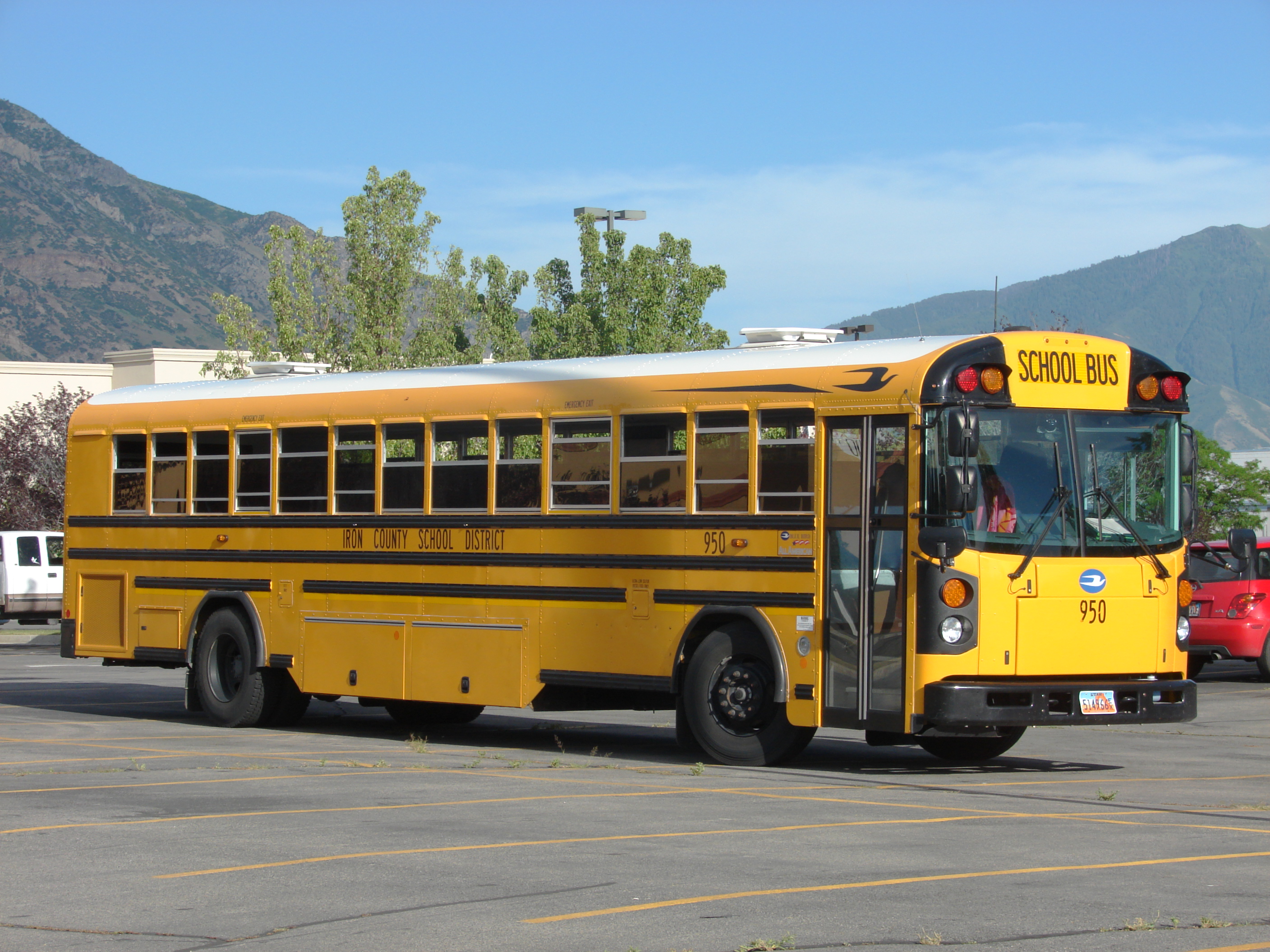 One of Iron County School District's school buses